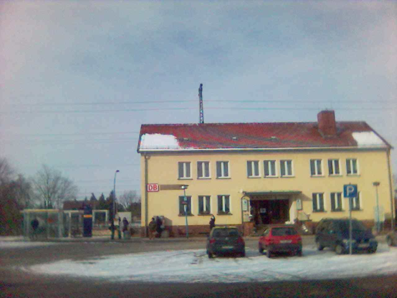 Golm station Bahnhof Golm